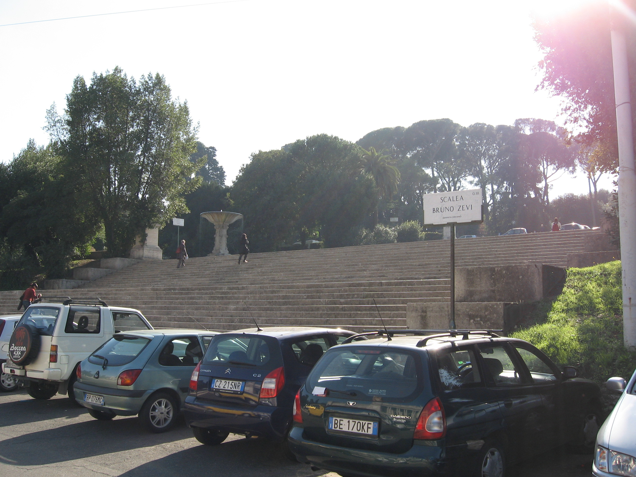 stairway of Bruno Zevi, viale delle Belle arti, Rome, Italy